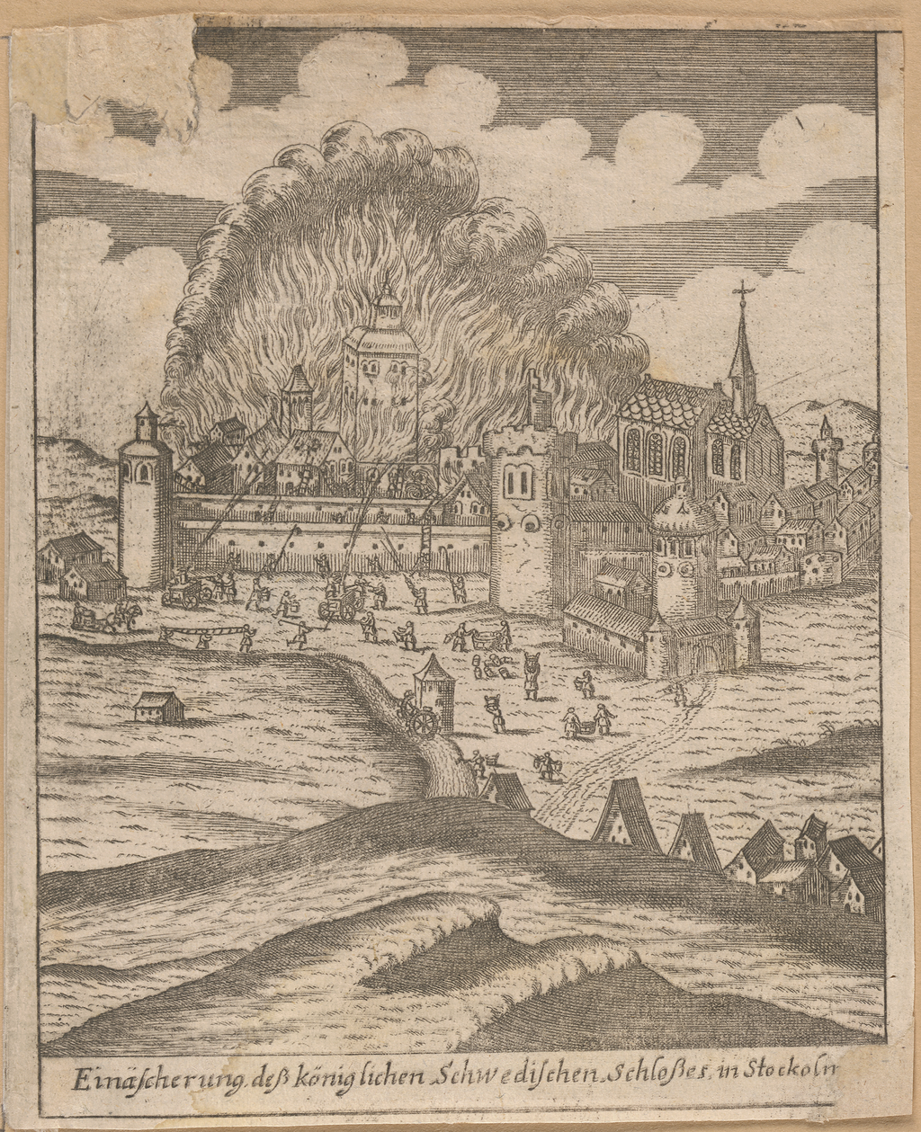 "The Fire at the Royal Castle in Stockholm, 1697" by Unknown, 1697